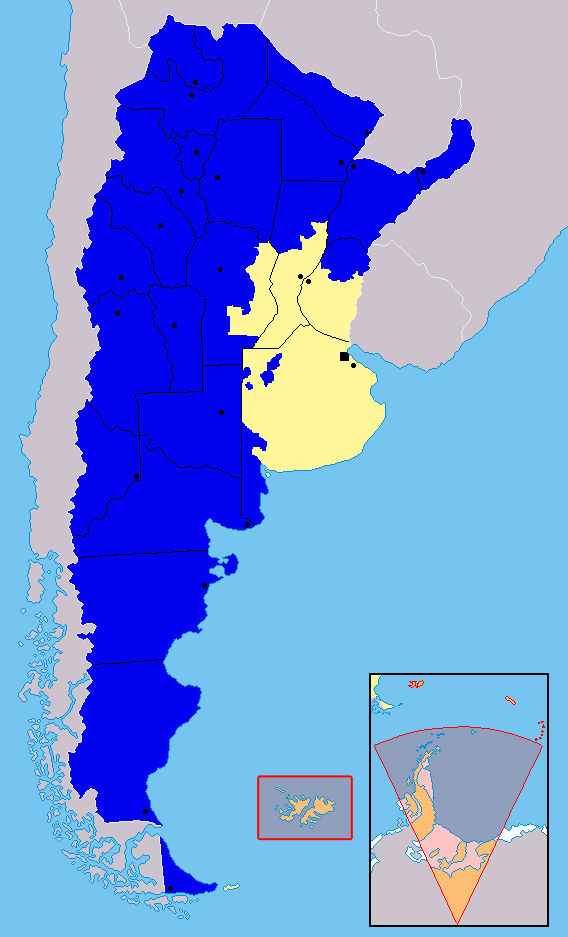 Argentina. Map. In blue area with soy a sunflower transport compensations. Argentina: mapa: en azul area sometida a compensaciones por transporte de soja y girasol. Según proyecto de ley aprobado en Diputados el 5 de julio de 2007.